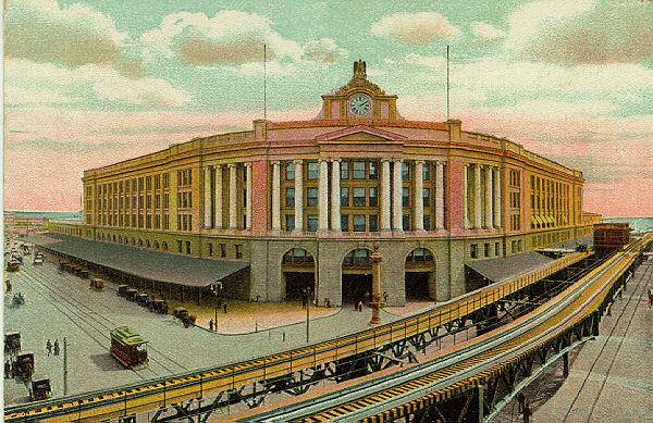 Early 1900s postcard of South Station in Boston, with Atlantic Avenue elevated in front